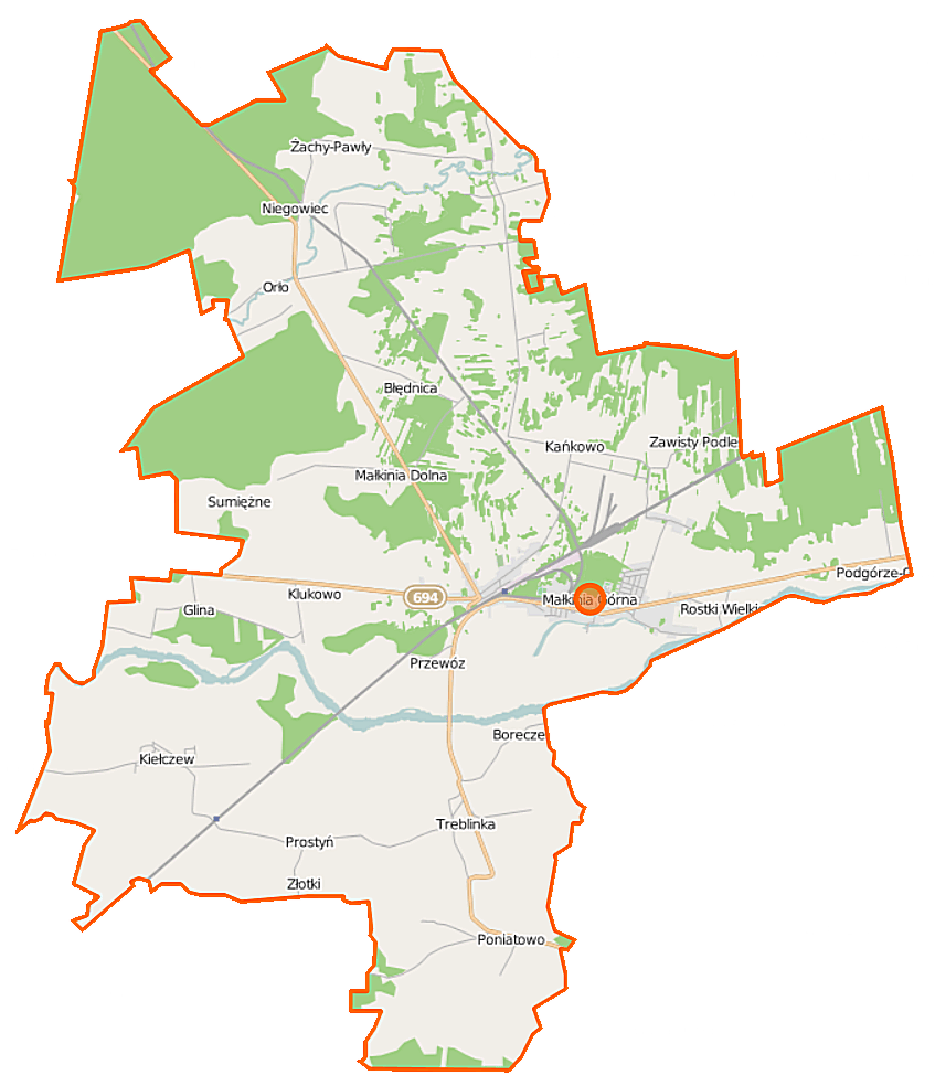 Map of Gmina Małkinia Górna, Poland This map of Małkinia Górna (gmina) was created from OpenStreetMap project data, collected by the community. This map may be incomplete, and may contain errors. Don't rely solely on it for navigation. Border coordinates52.783221.9078←↕→22.140552.6193